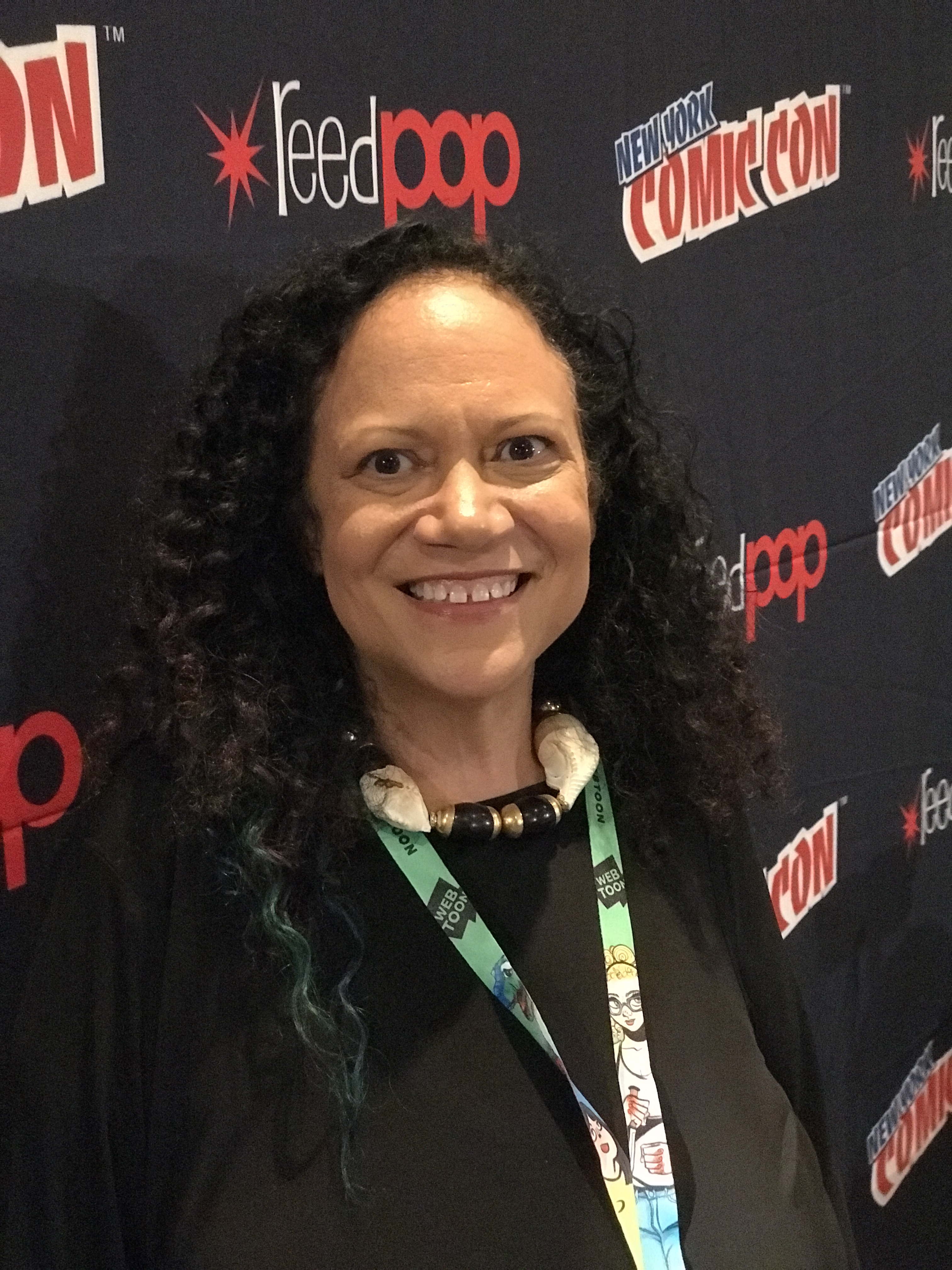 Author and songwriter Alice Randall at "The Return of the Dakota Universe" panel discussion on Thursday, October 5, 2017 at the Jacob K. Javits Convention Center in Manhattan, Day 1 of the 2017 New York Comic Con. This photo was created by Luigi Novi. It is not in the public domain, and use of this file outside of the licensing terms is a copyright violation.